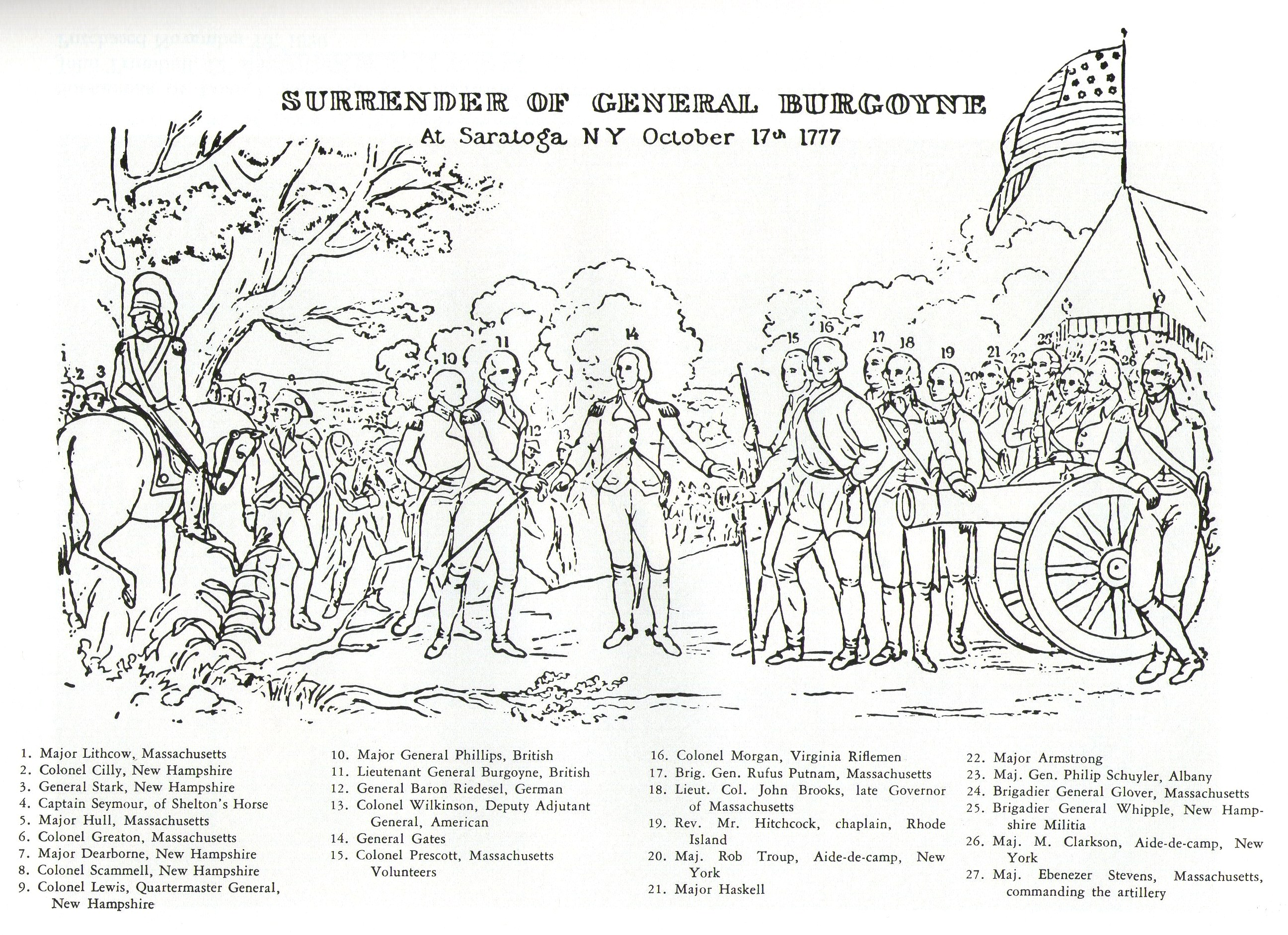 A key to JohnTrumbull's Surrender of General Burgoyne.